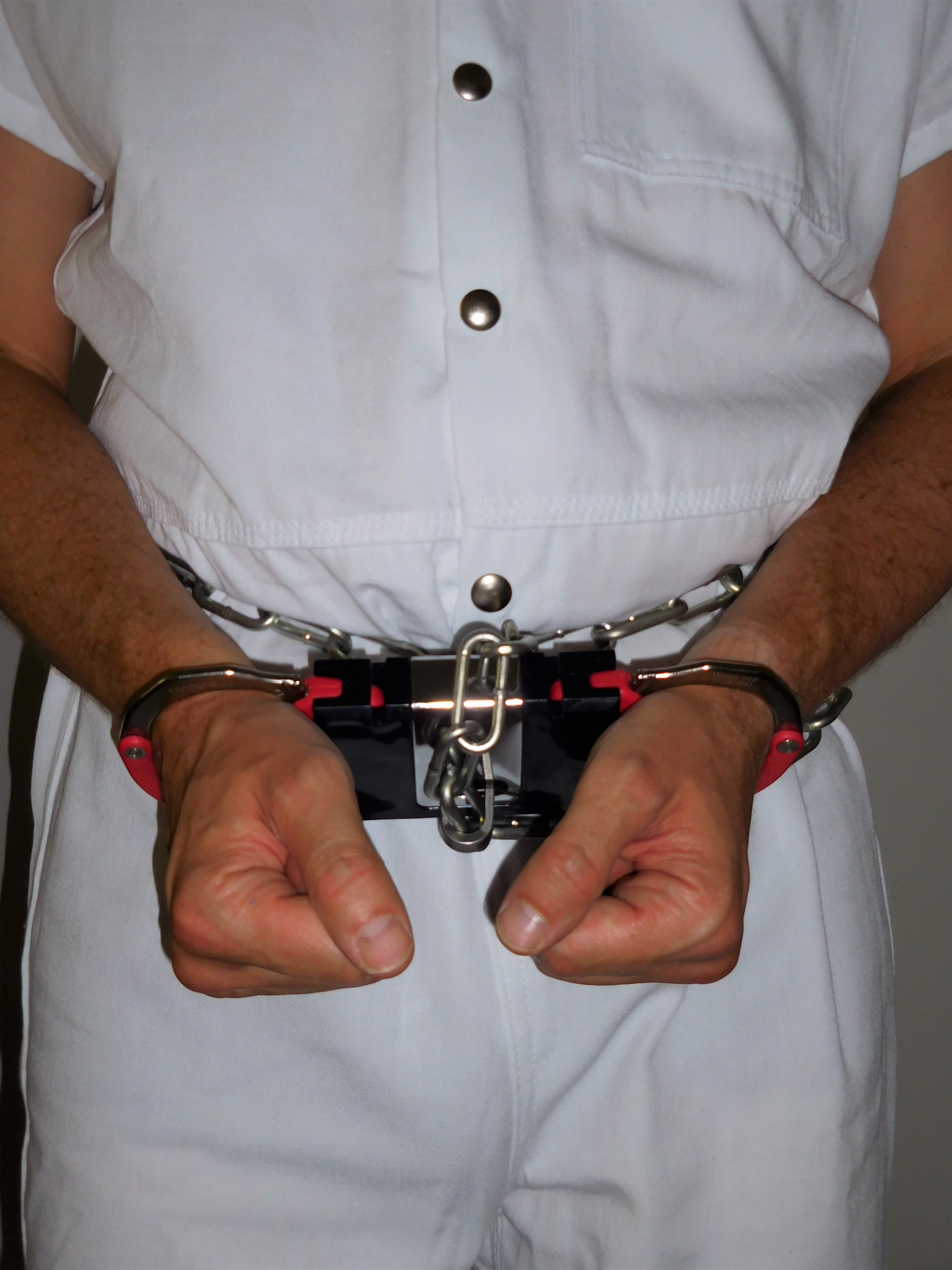 Closeup of an inmate in handcuffs augmented with a handcuff cover (parrallel position)